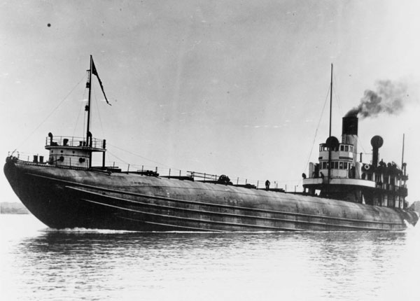 The whaleback steamer Henry Cort prior to her wrecking